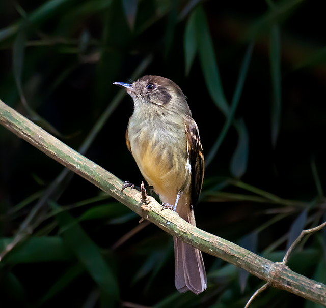 A Sepia-capped Flycatcher in Piraju, São Paulo, Brazil.